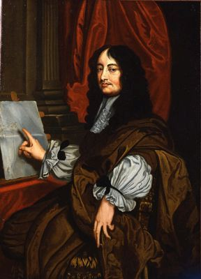 William Brouncker, 2nd Viscount Brouncker